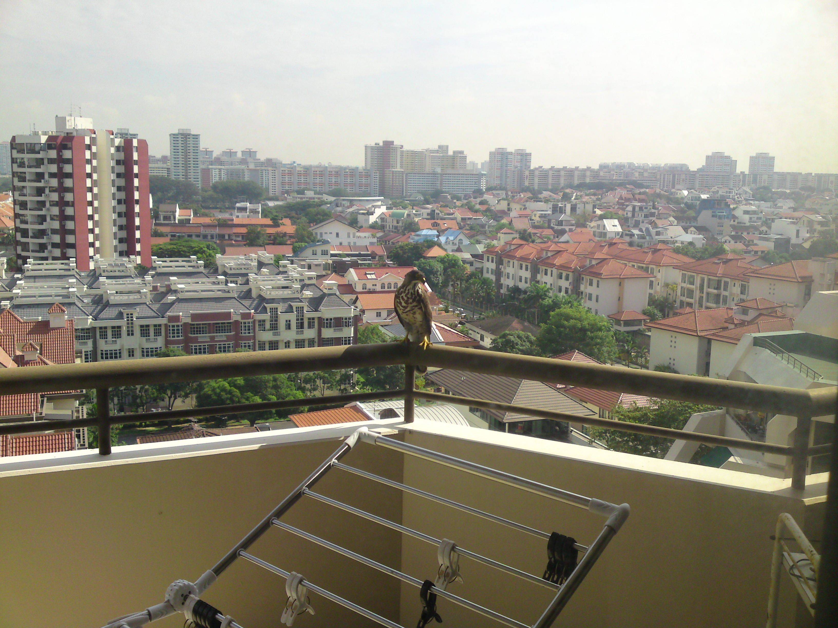 Found this Crested Goshawk Accipiter trivirgatus perched on the balcony of my 12th floor condominium along Bedok South Avenue 1 at 10:14 AM. It stayed there for two minutes before flying away.